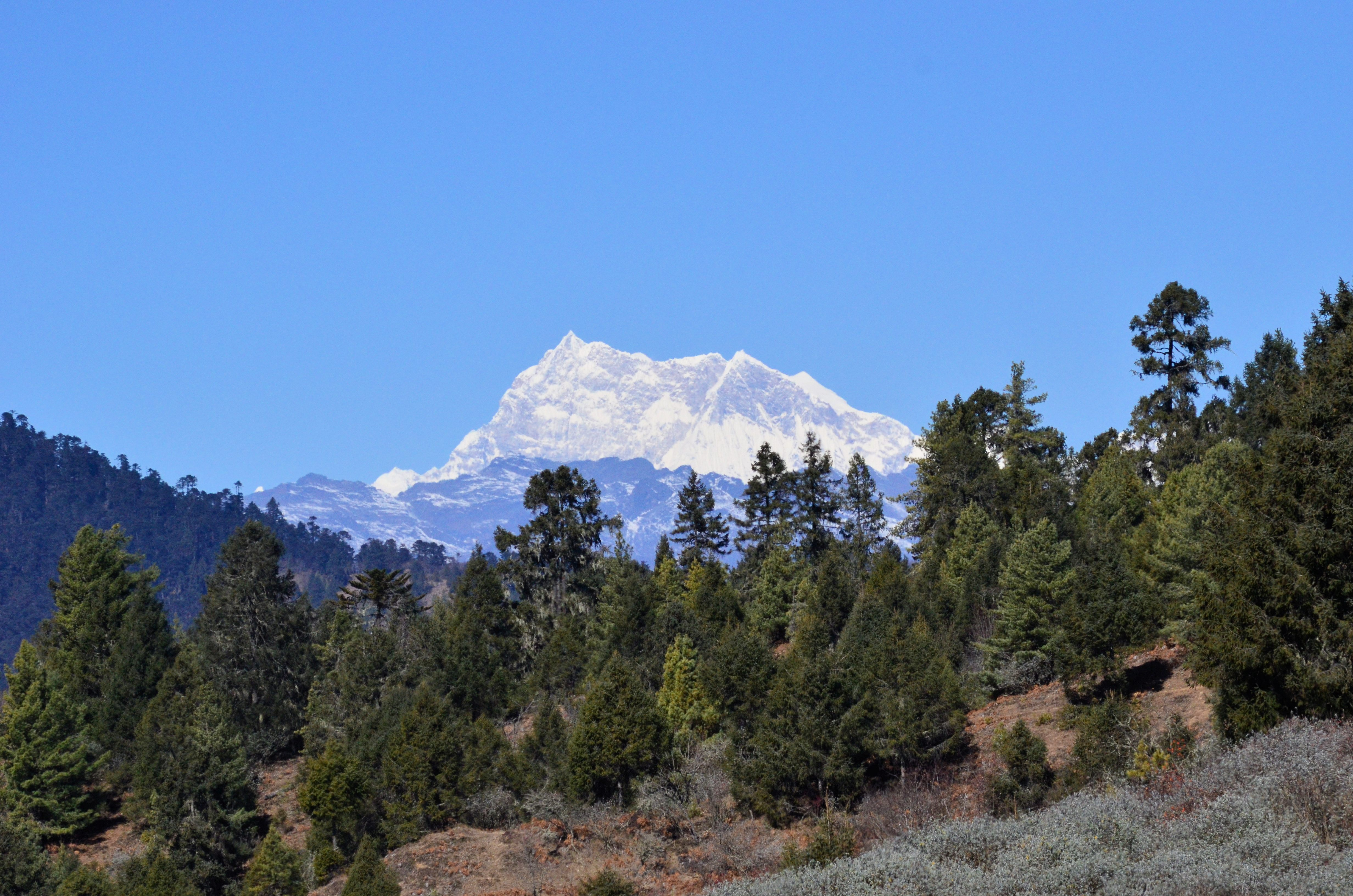 View of Gangkhar Puensum from Bumthang. (taken from national highway between Jakar and Ura)